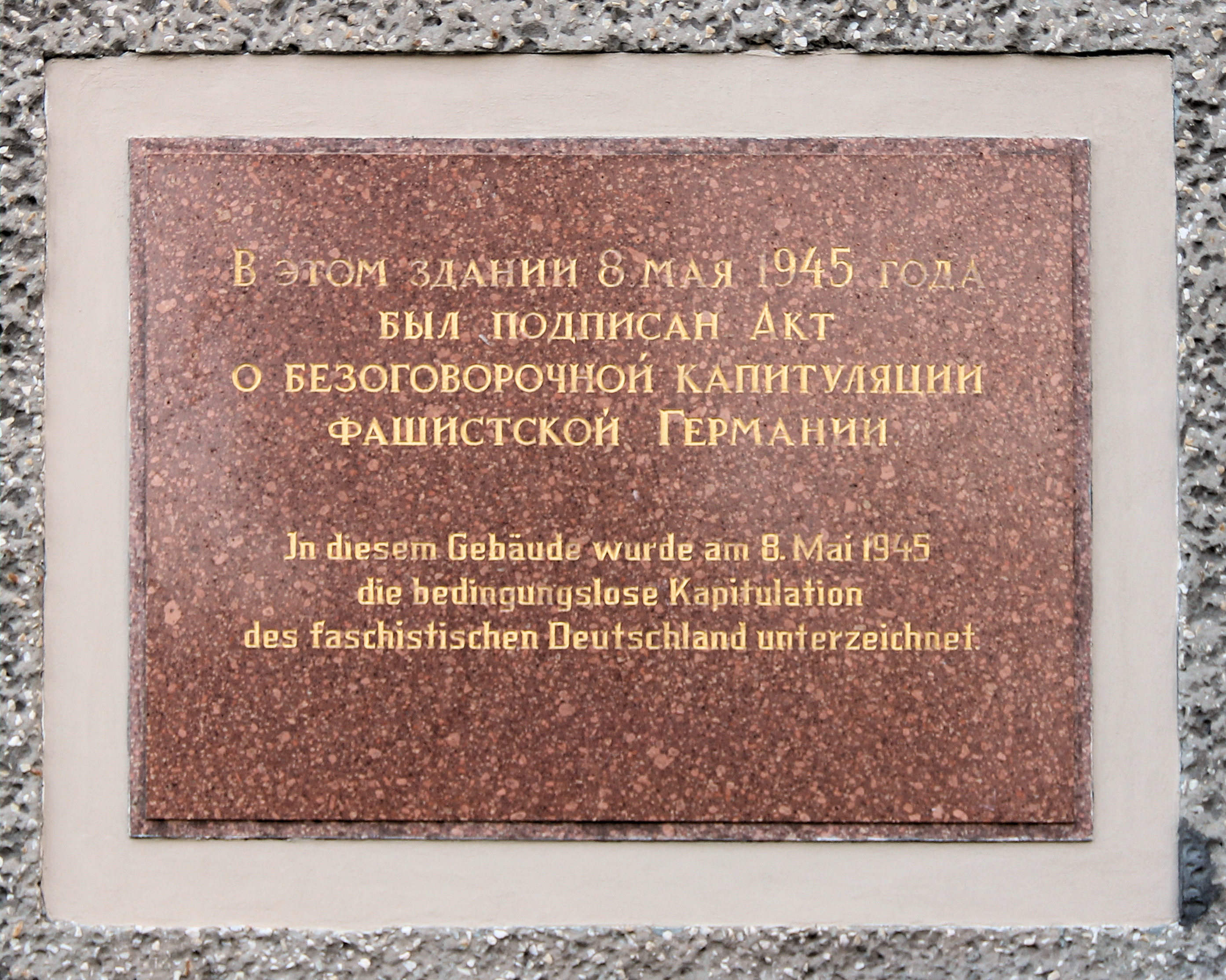 Memorial plaque, Bedingungslose Kapitulation, Zwieseler Straße 4, Berlin-Karlshorst, Germany